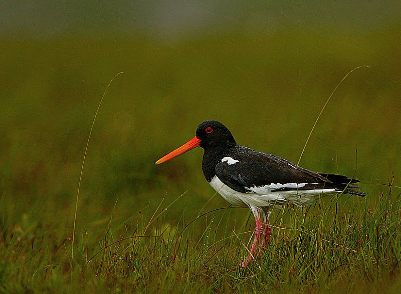 An image taken on the bleak wet moorland up Glen Quaich, Scotland.